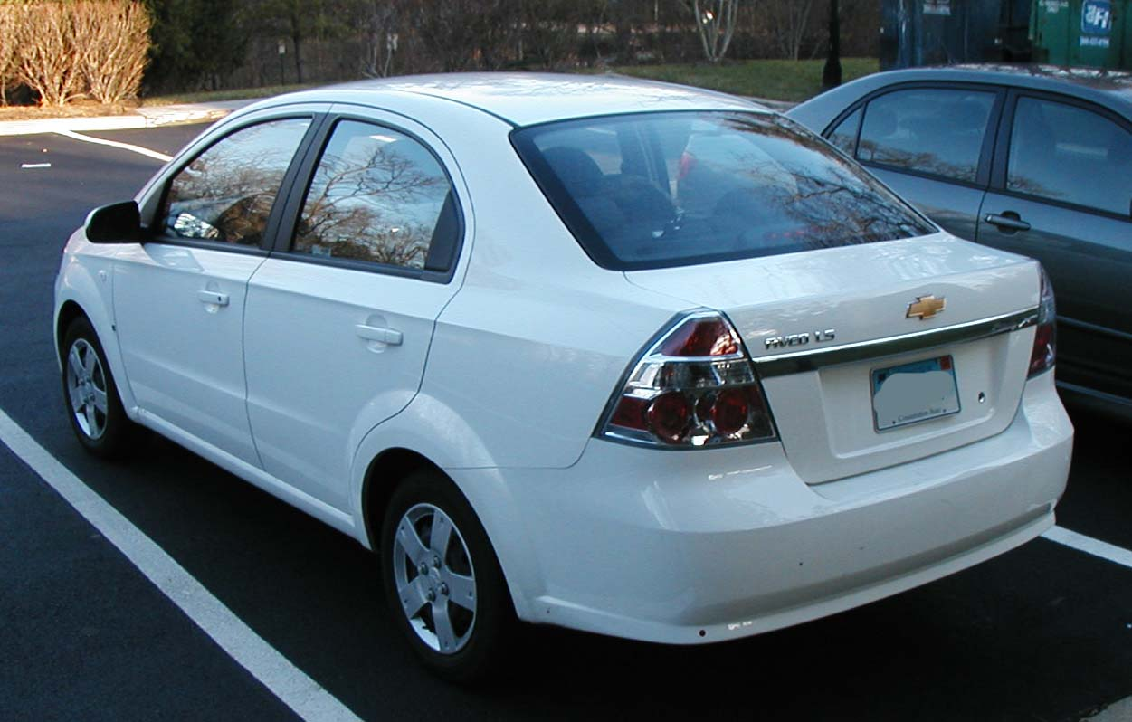 2007 Chevrolet Aveo photographed in USA.